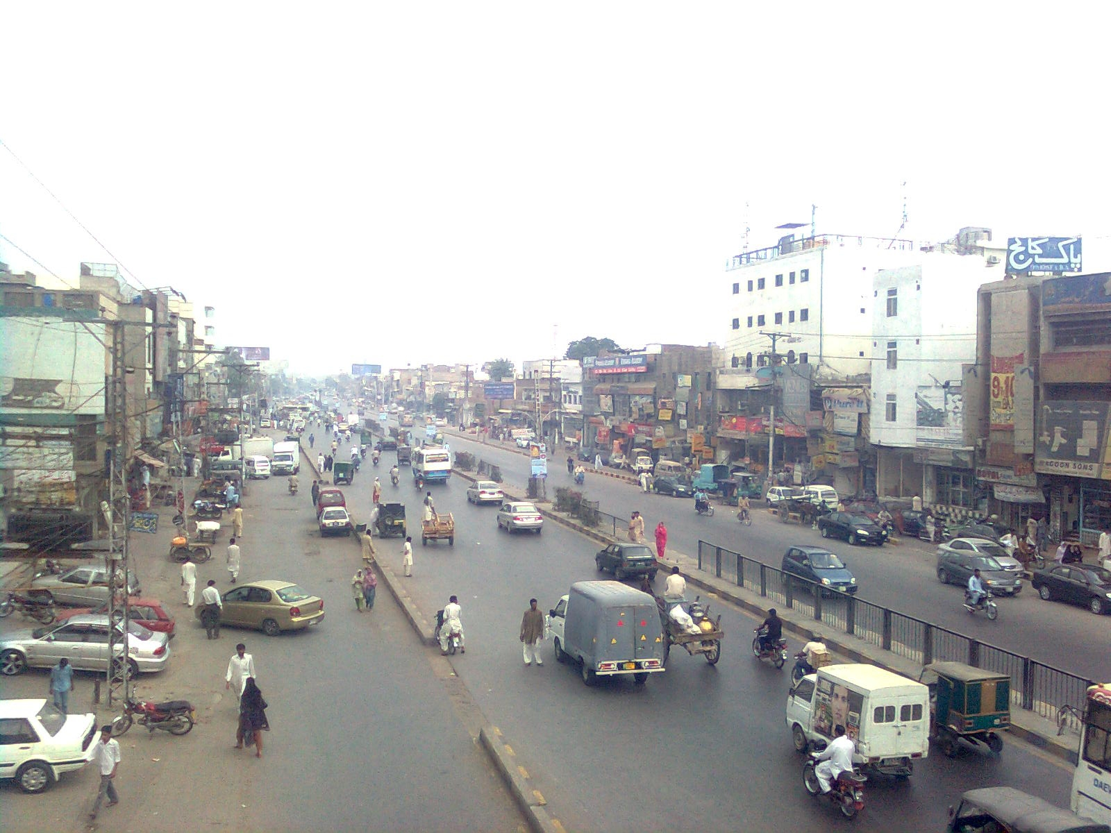 Ferozepur road Lahore